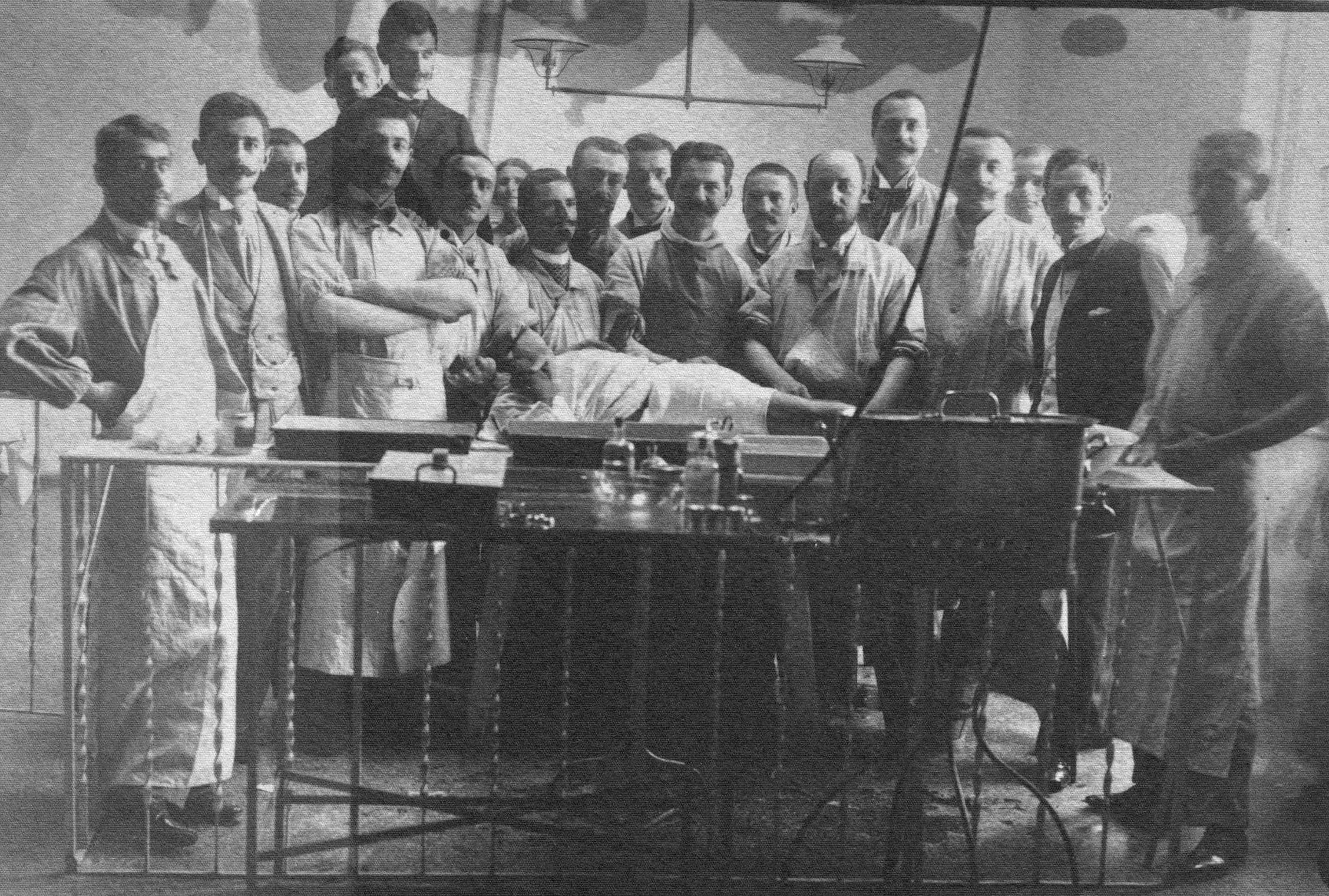 A necropsy performed in Bucharest (possibly at Colțea Hospital). Dr. Nicolae Minovici is at the center of the image. To his left, in dark costume and perched, is anatomist Francisc Rainer (at the time, an intern at Colțea).